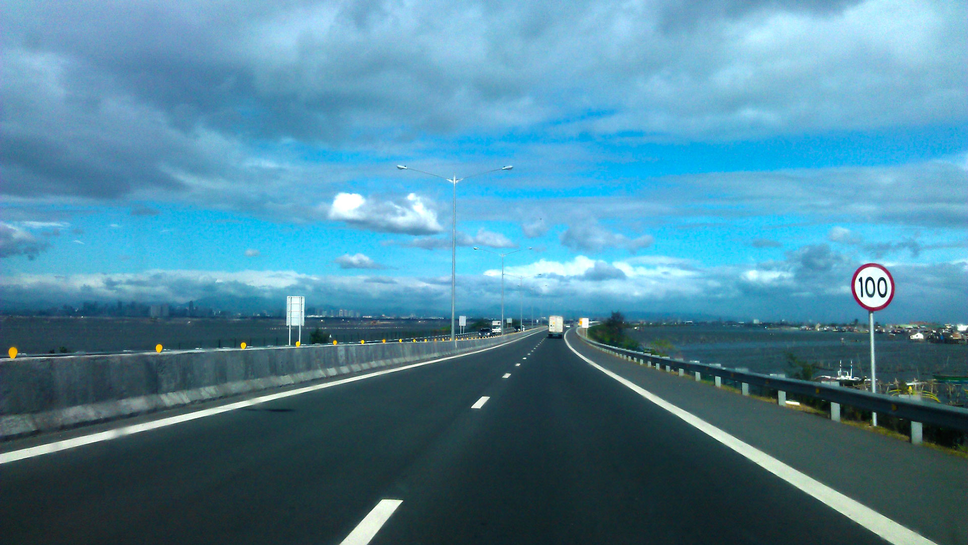 The Manila-Cavite Expressway extension or famously known as Cavitex is the expressway that passes through a reclaimed and elevated area across the Bacoor Bay, a southern bank of Manila bay that bypasses the populated areas of Bacoor Cavite and exits at Kawit, Cavite.